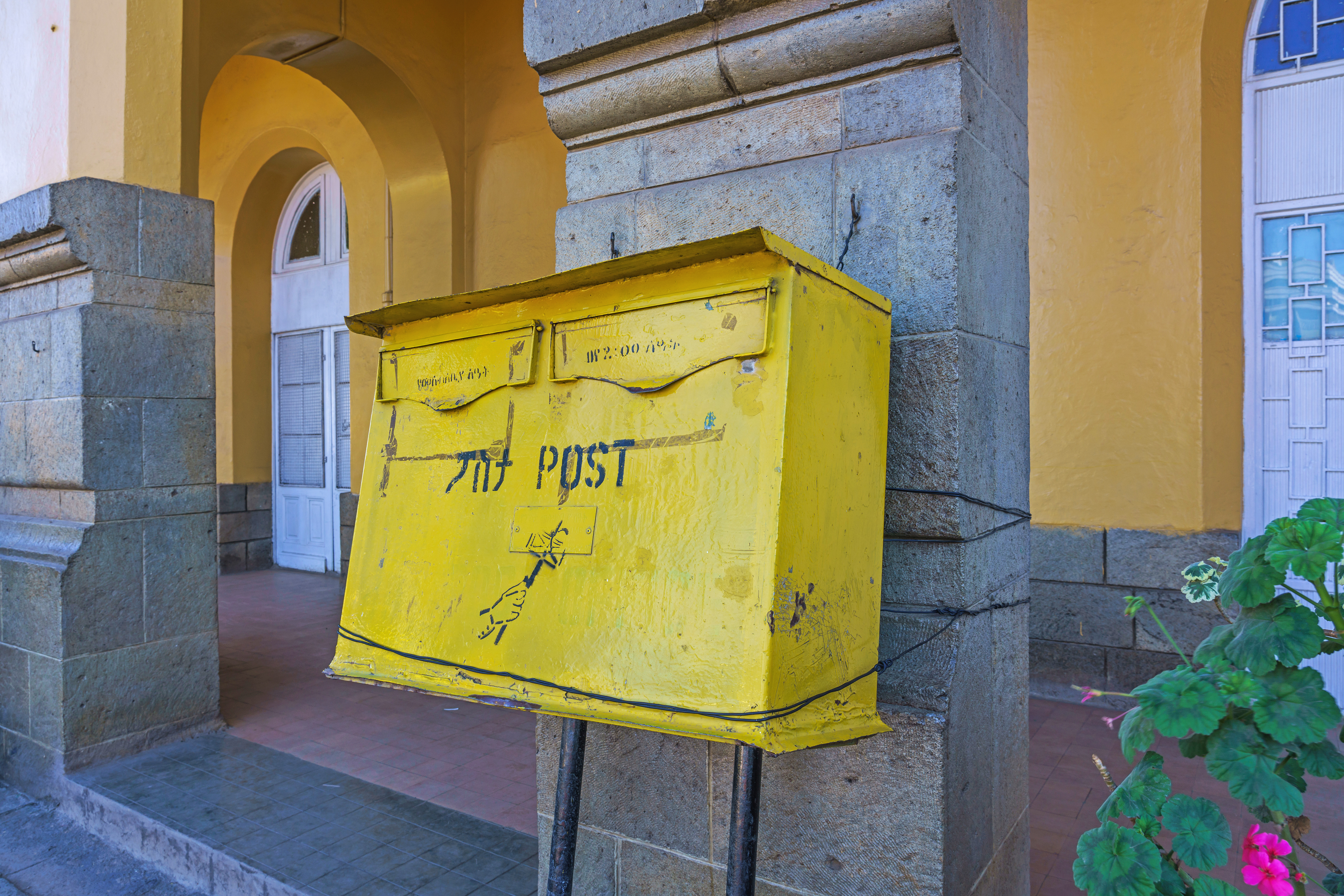 Postbox at the old railway station in Addis Ababa, Ethiopia